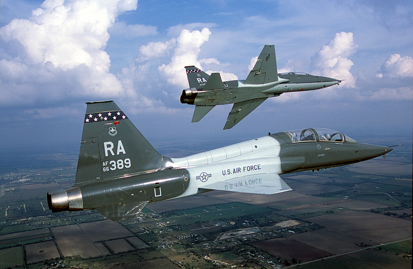 Air-to-air right side view of an USAF T-38 Talon aircraft from 560th Flying Training Squadron, Randolph AFB, TX, taken from the 3rd aircraft in echelon formation as lead aircraft banks to the left.